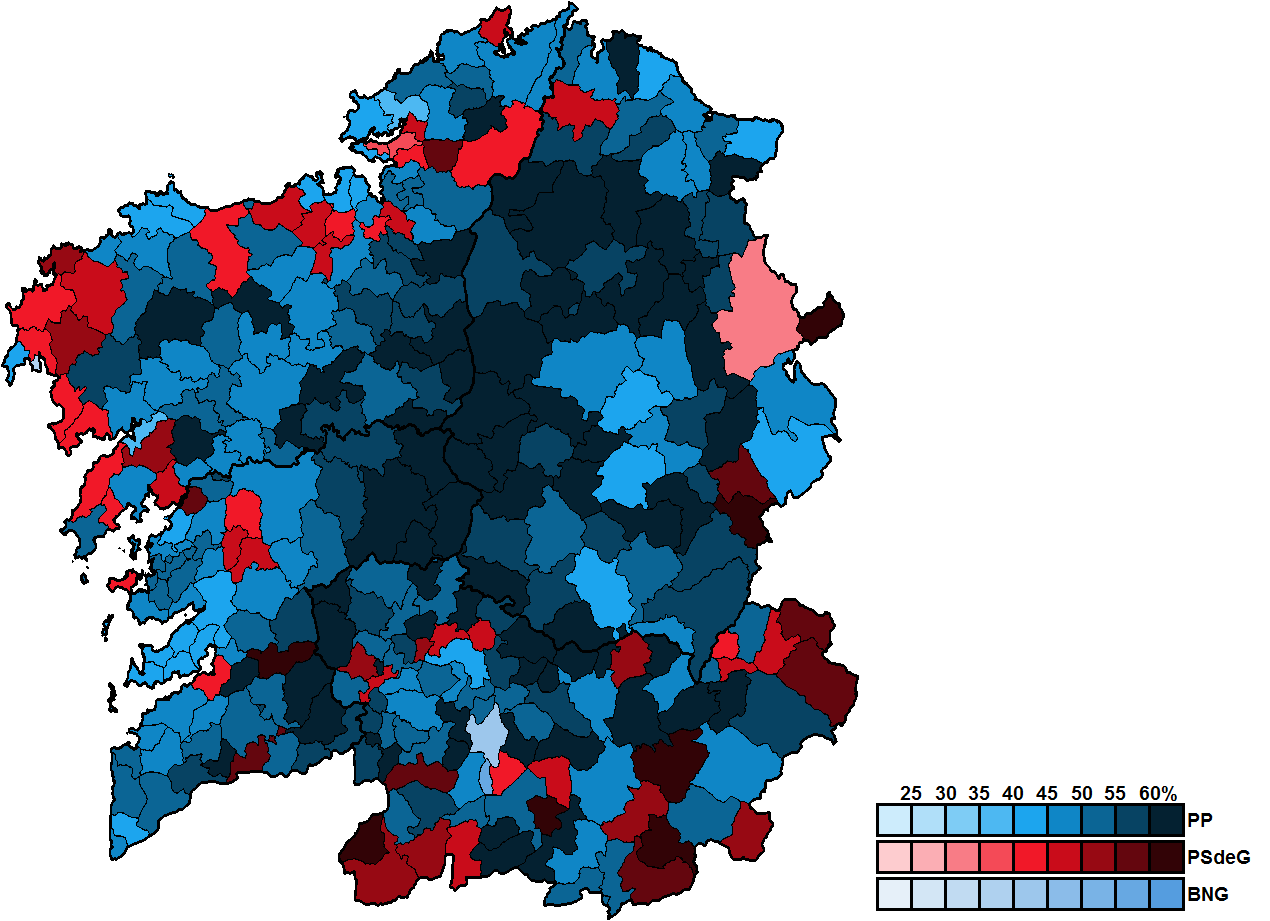 Most-voted party in Galicia municipalities, showing vote share obtained, in the Spanish general election, 1993.